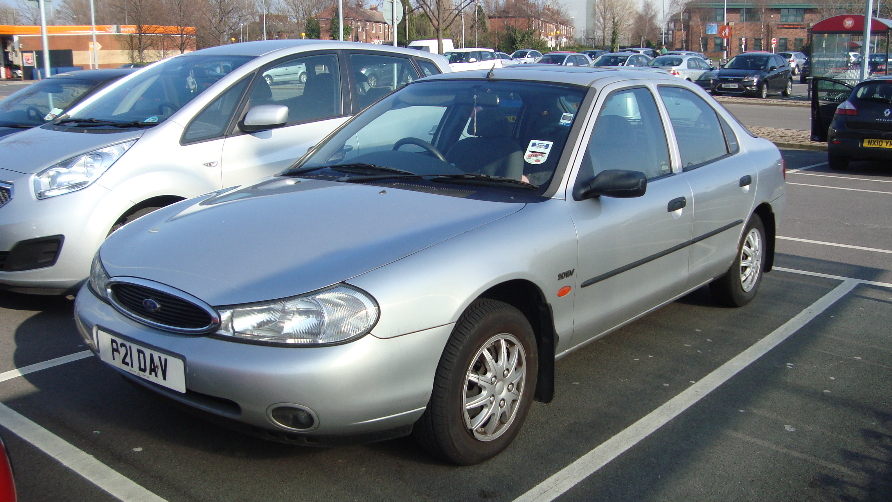 First registered on the 27th September 1996 which must make it one of the earliest Mk2 Mondeos, I see a lot of MK1s about registered later than this one